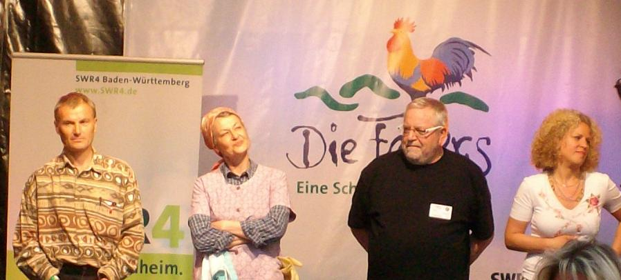 The actors who play the main characters of the German television soap opera "Die Fallers – Eine Schwarzwaldfamilie", from left to right: Peter Schell, Ursula Cantieni, Wolfgang Hepp, Christiane Brammer, at the 15th anniversary of the soap opera in June 2009.